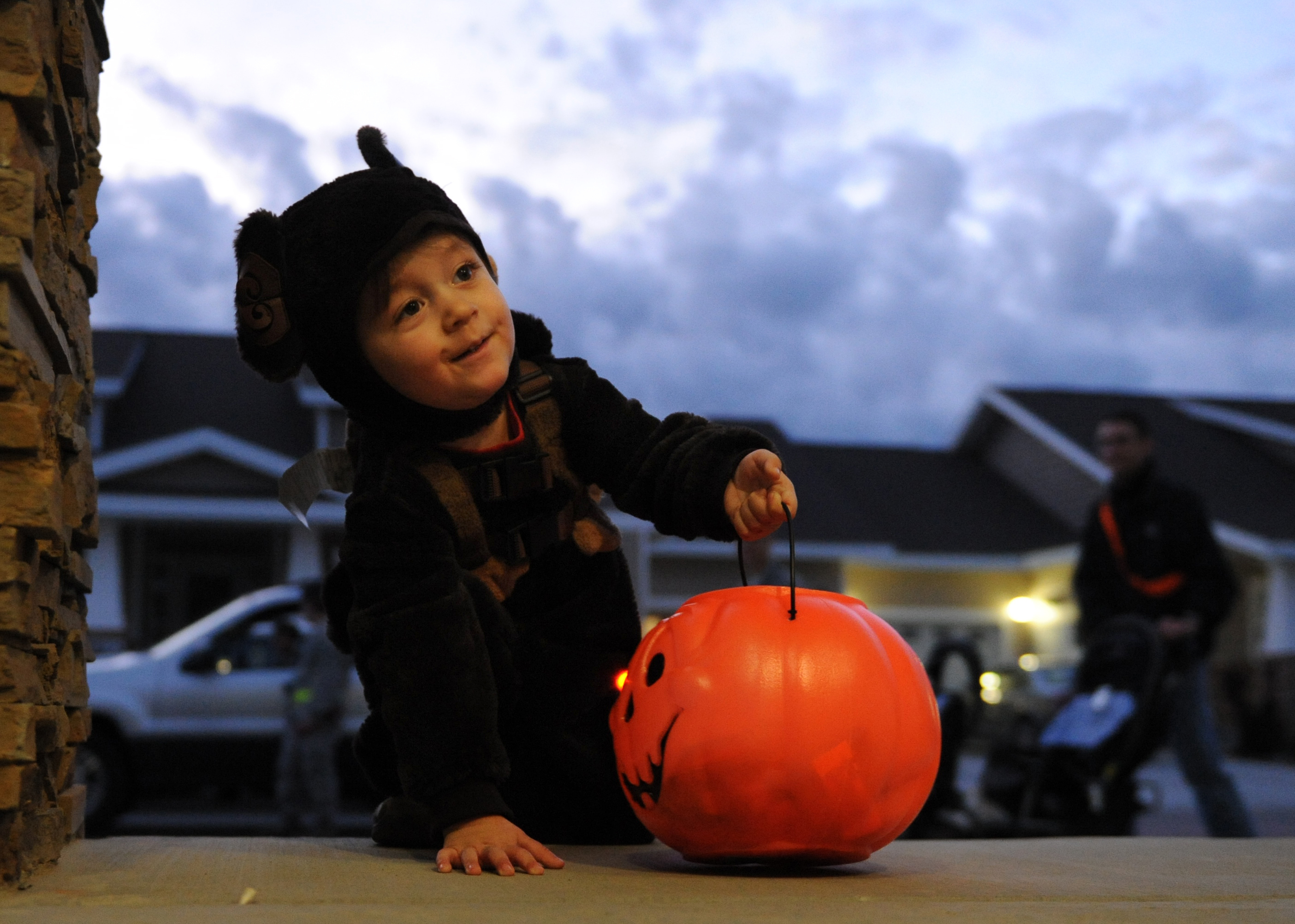 Bobby, 2, struggles to carry his candy bucket as he goes trick or treating dressed as a monkey in base housing Oct. 31. The 366th Security Forces Squadron conducts a pumpkin patrol on base each year to ensure the safety of children and their families as they trick-or-treat and celebrate Halloween. (U.S. Air Force photo/Airman 1st Class Debbie Lockhart/RELEASED